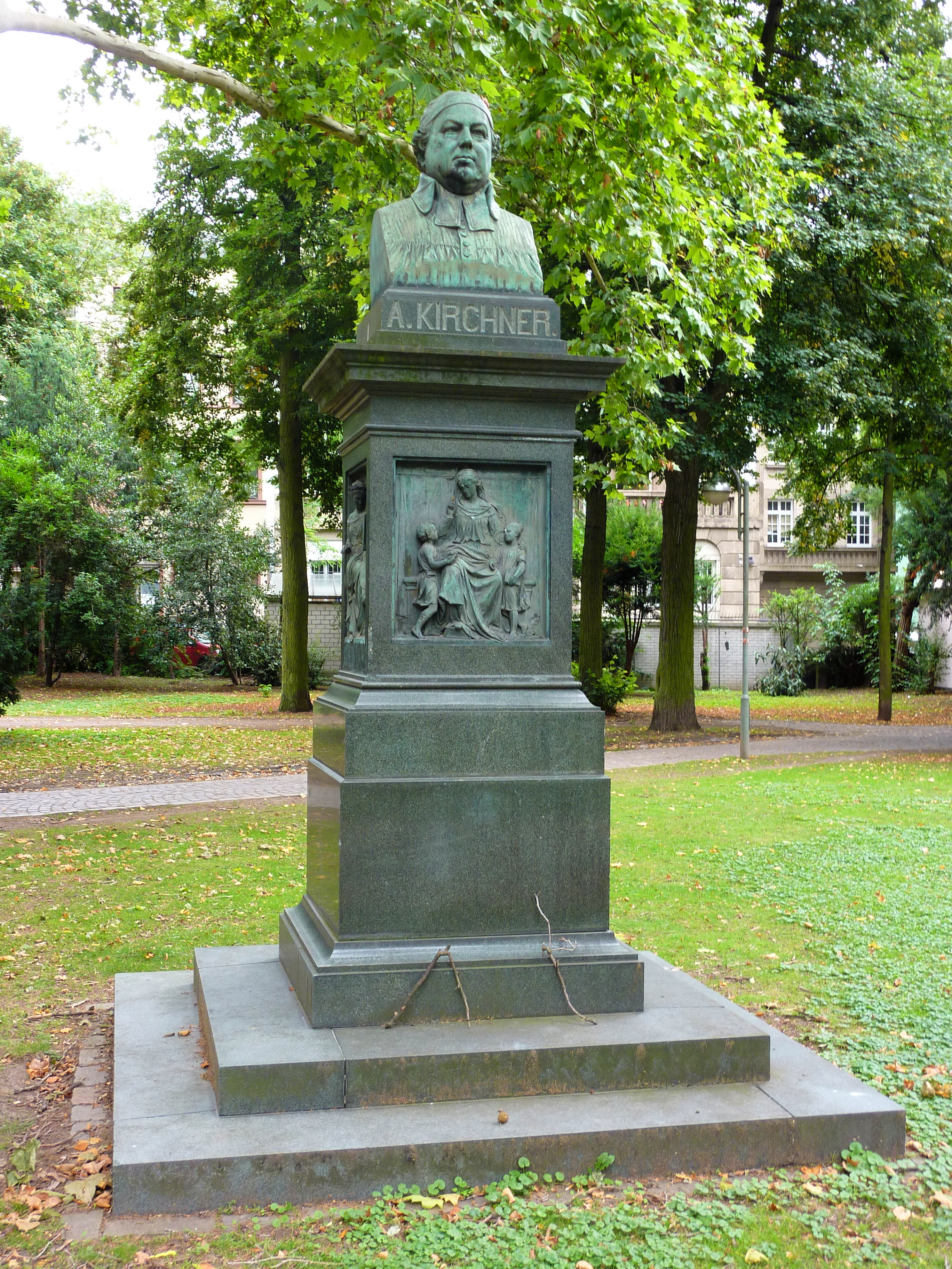 Frankfurt/M., Germany: Monument with bust of the Frankfurt reverend, teacher and historian Anton Kirchner (1779–1834) in the city’s Wallanlagen park